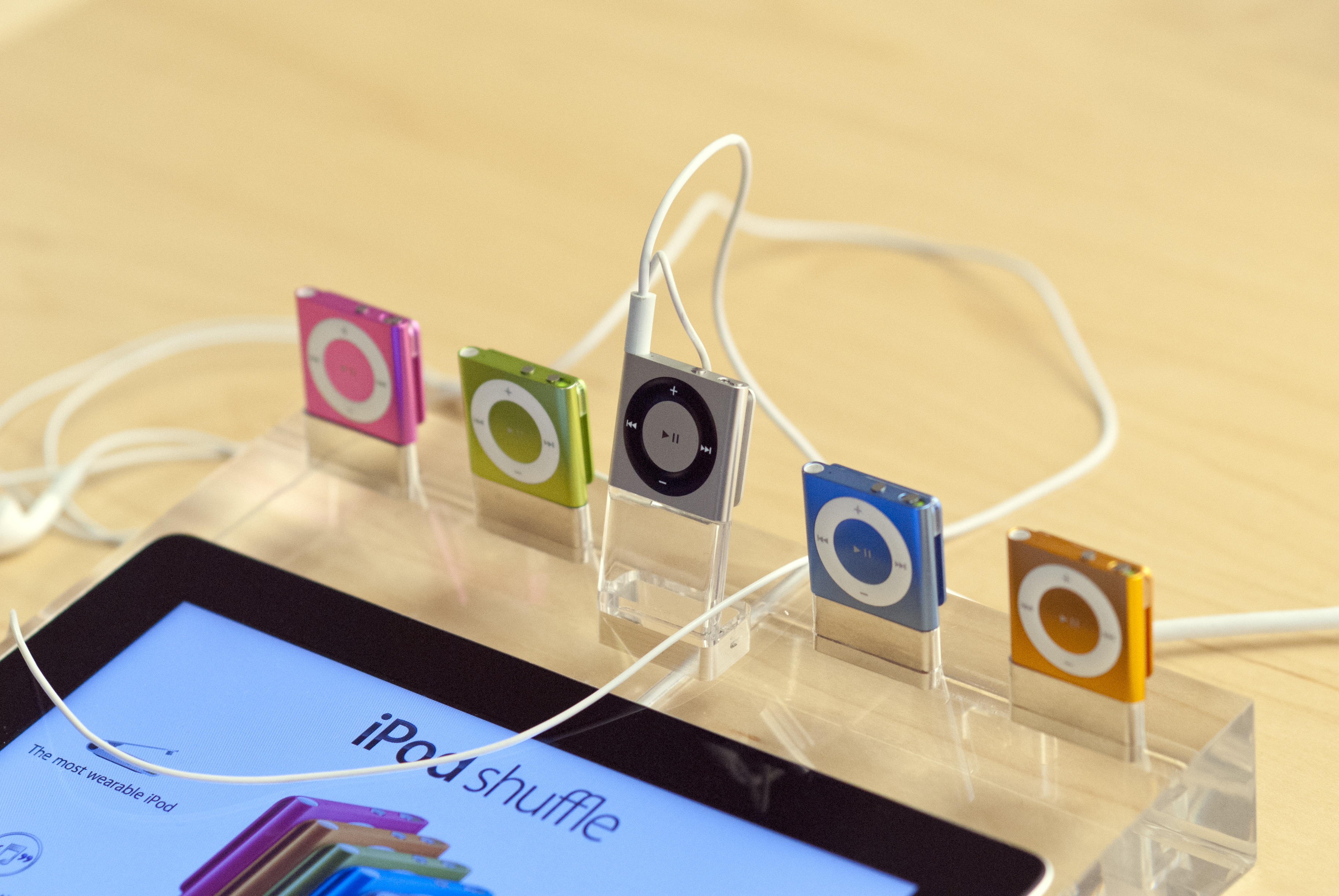 An Apple iPod Shuffle (4th gen) display on a table in an Apple Store in Manhattan.